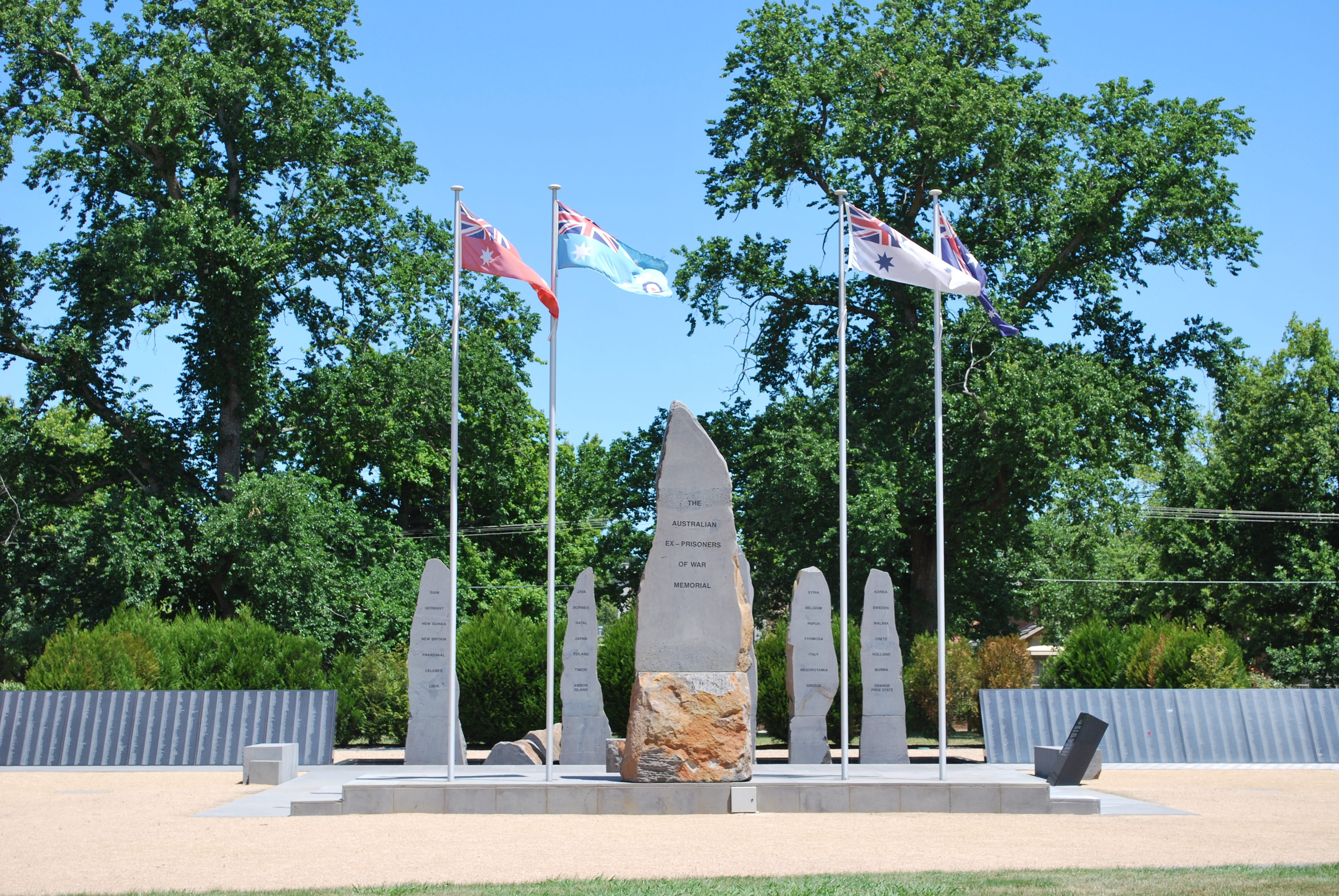 Australian ex-prisoner of war memorial at Ballarat, Australia